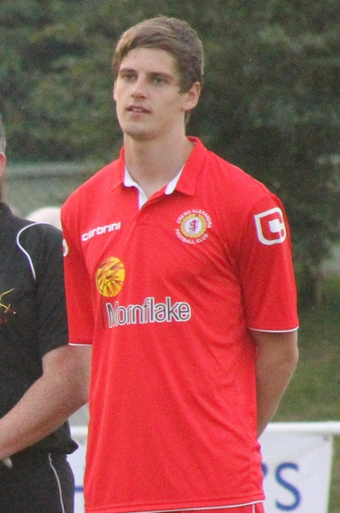 photograph of Jon Guthrie, taken at Pewsey Vale.